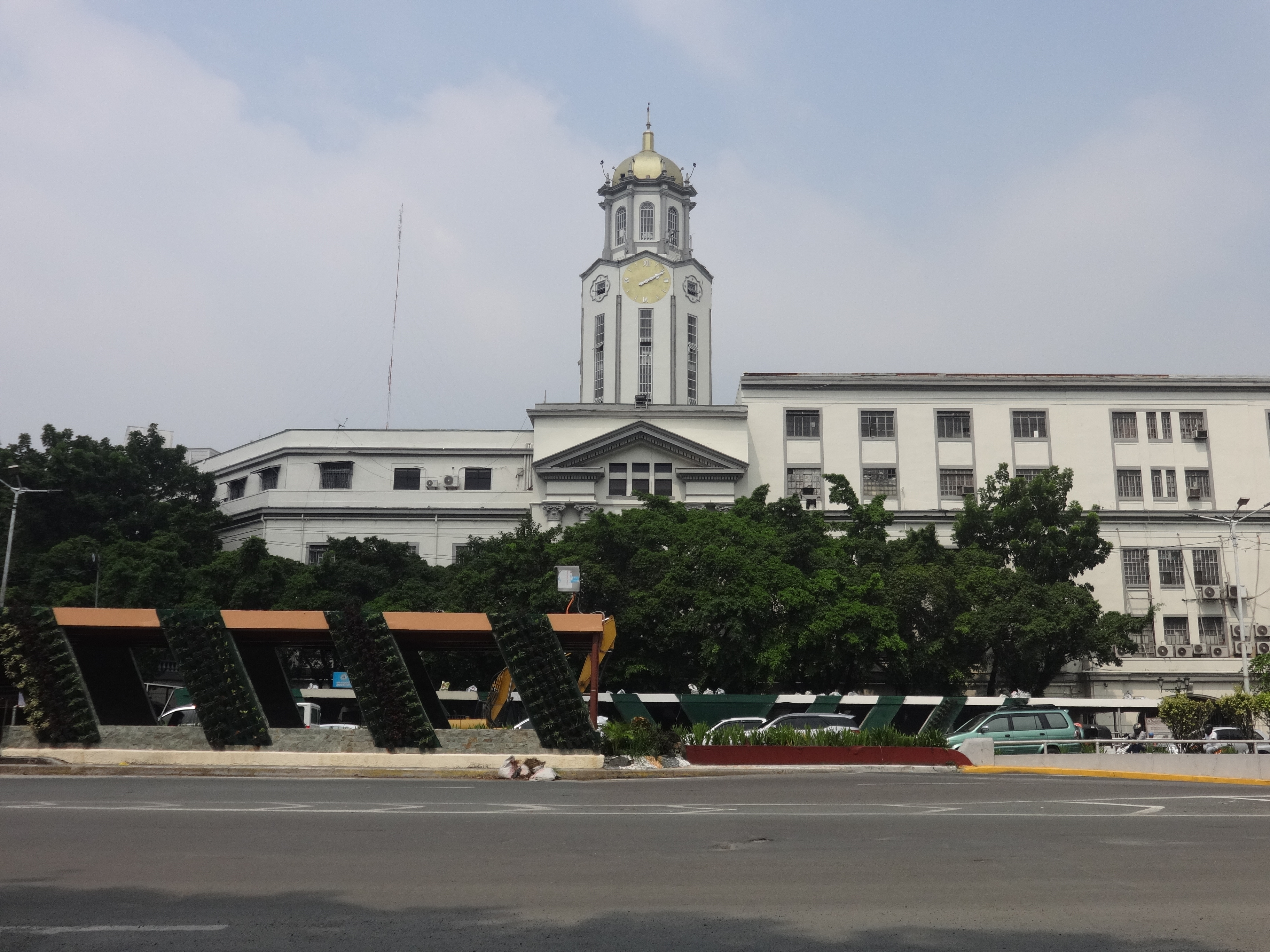 View of the newly-repainted Manila City Hall